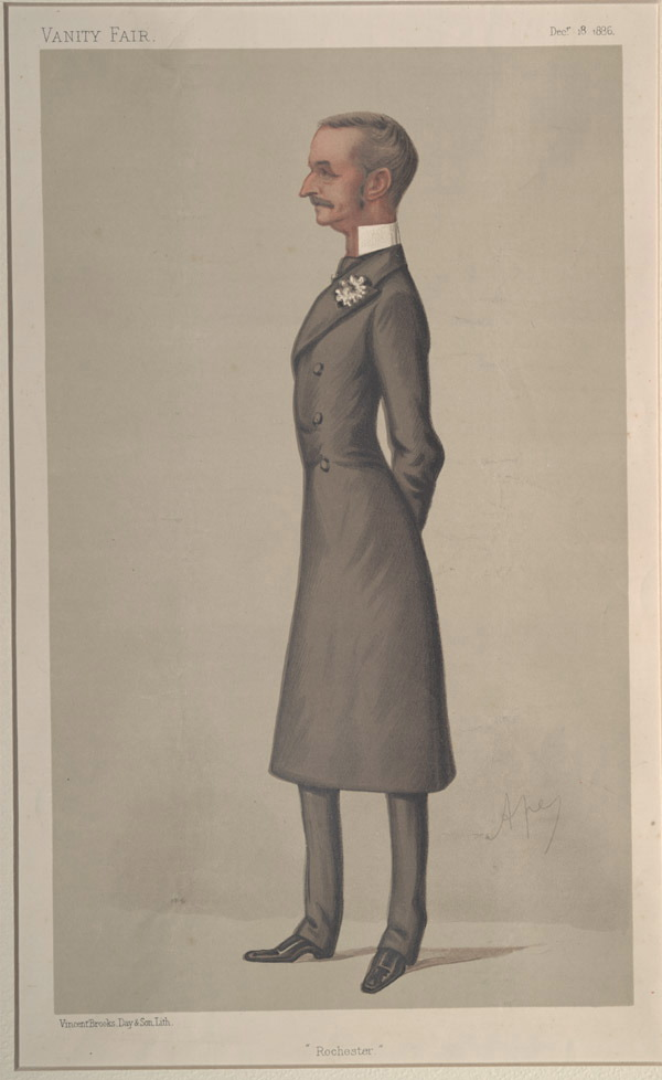 Statesmen No.508: Caricature of Col Francis Charles Hughes-Hallett MP. Caption reads: "Rochester"